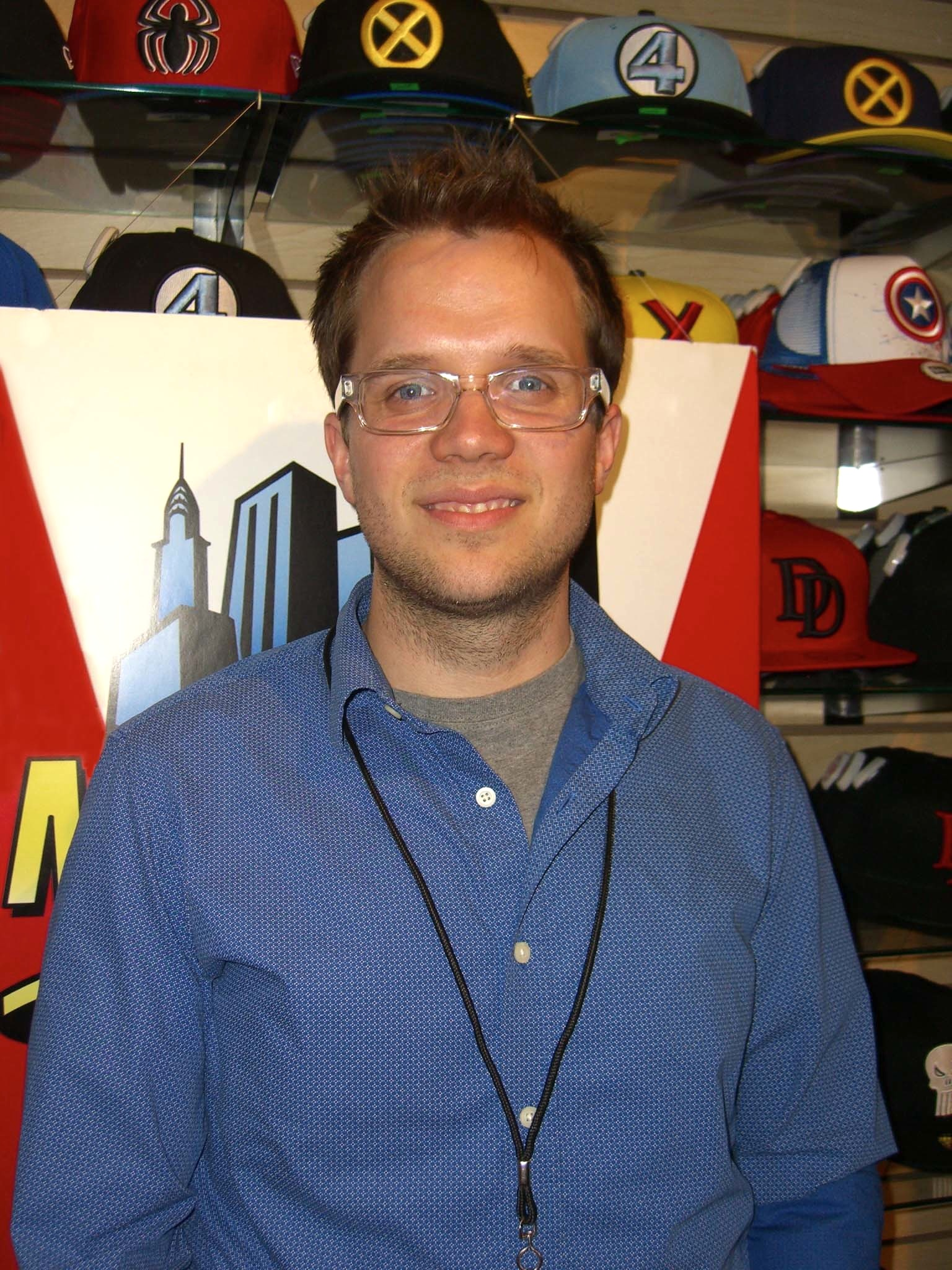 Marvel Comics X-Men Senior Editor Nick Lowe at a "Meet the Publishers" Q & A session at Midtown Comics Downtown in Manhattan, April 14, 2011. Photographed by Luigi Novi. This photo is not in the public domain. It may, however, be used, modified and published for any purpose, free of charge, only if an easily visible credit to the photographer is placed near the photo in each instance in which it is used. (See licensing information below.) Publication of this photo without this proper attribution constitutes copyright infringement. For more information on my photos, you can contact me here.